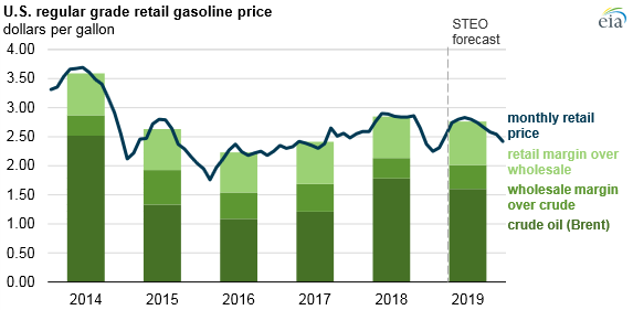 EIA's April 2019 Short Term Energy Outlook forecasts monthly average retail gasoline prices in the United States will increase from $2.74/gal in April to a summer peak of $2.83/gal in June before gradually falling to $2.66/gal by September. Apil 17, 2019